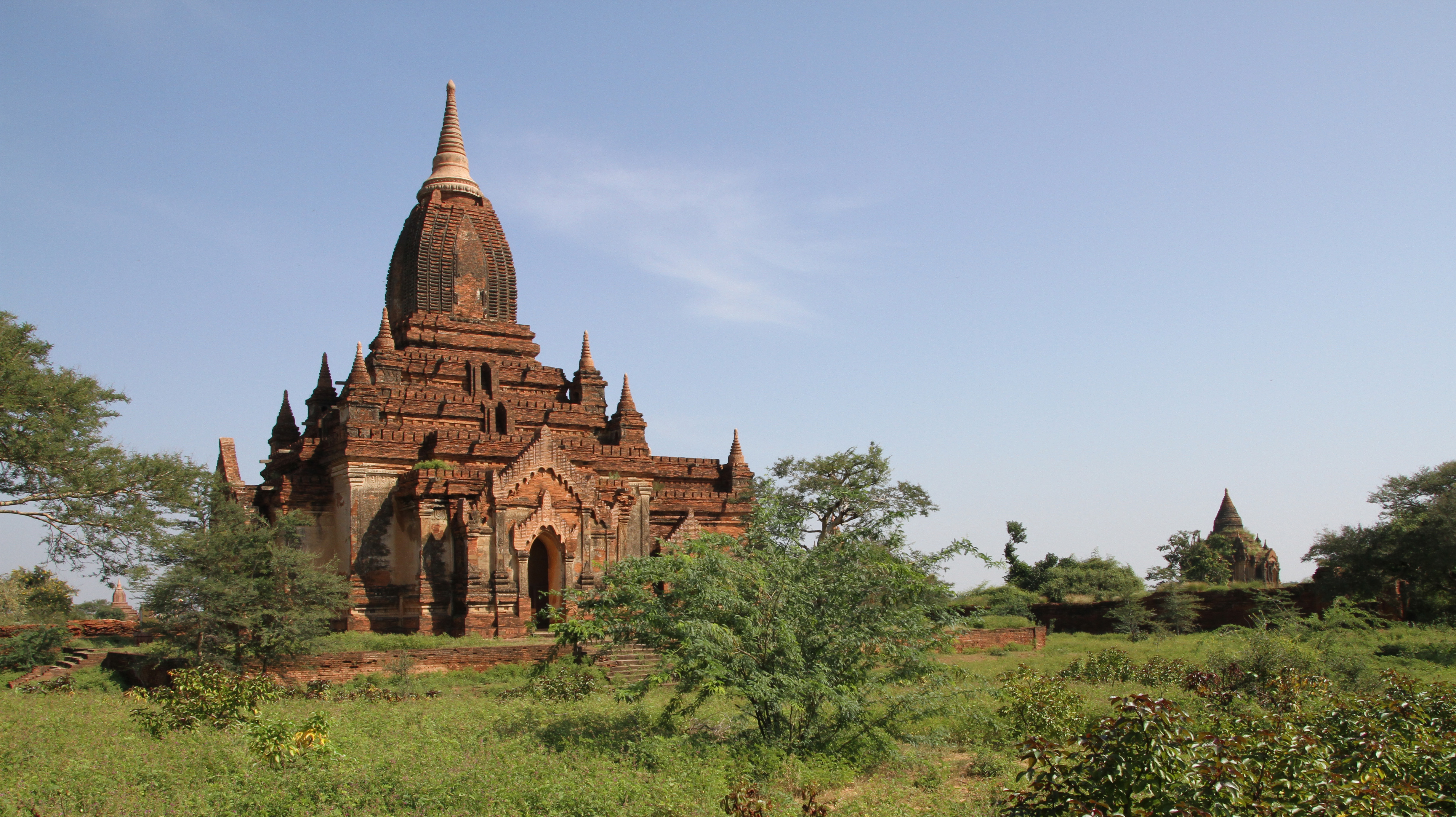 Thambula temple in Bagan in Myanmar.